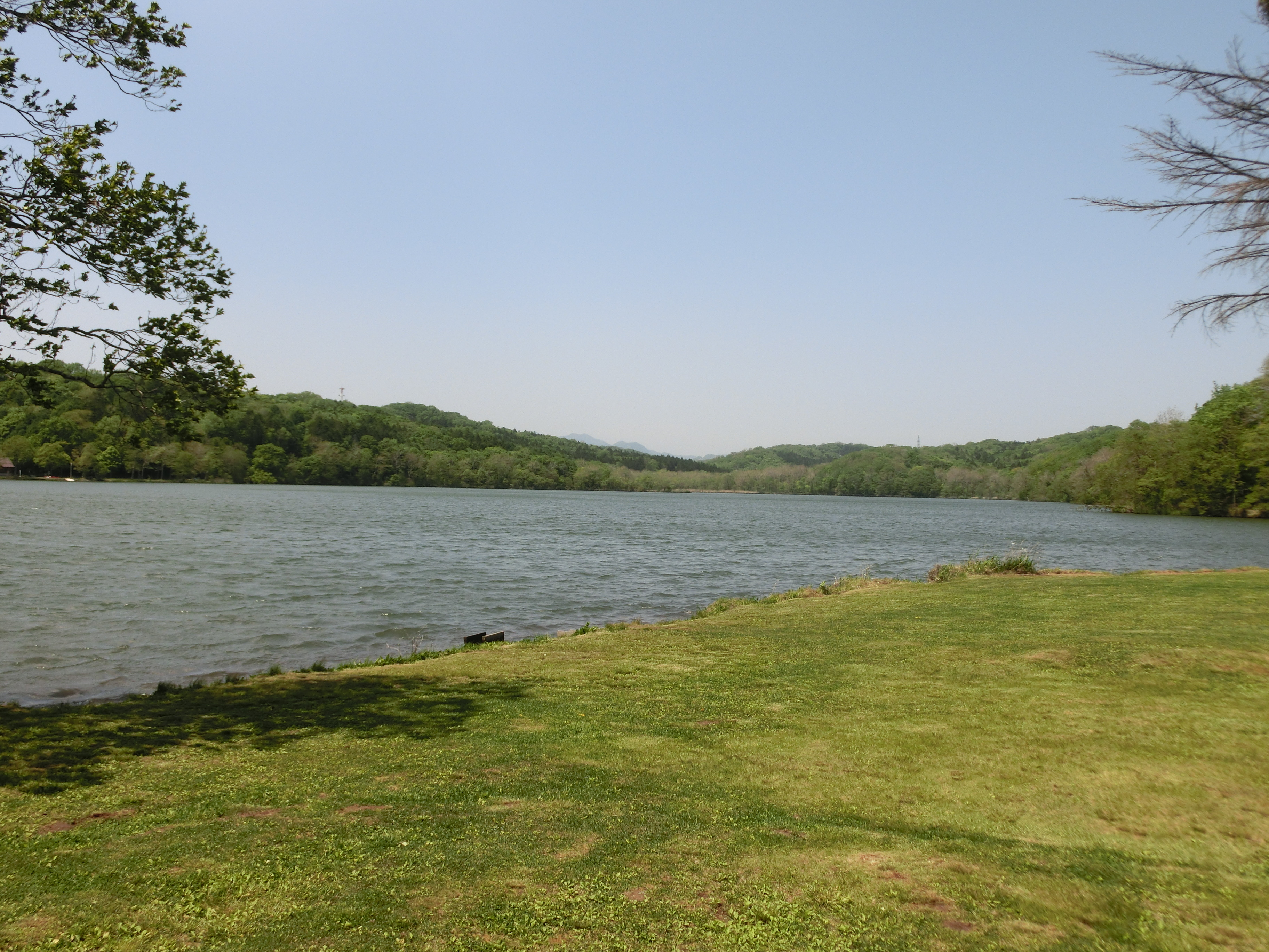 Lake Poroto